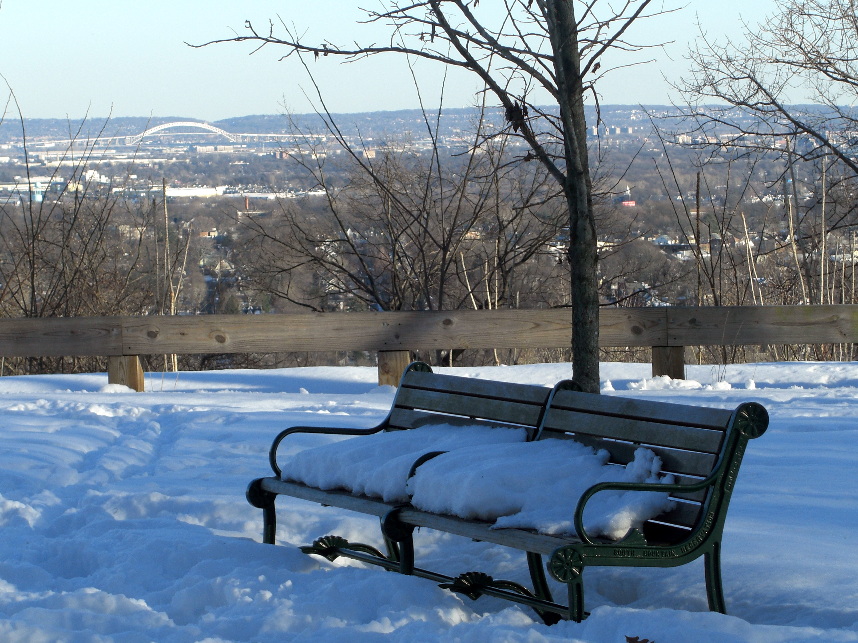 South Mountain Reservation View in winter